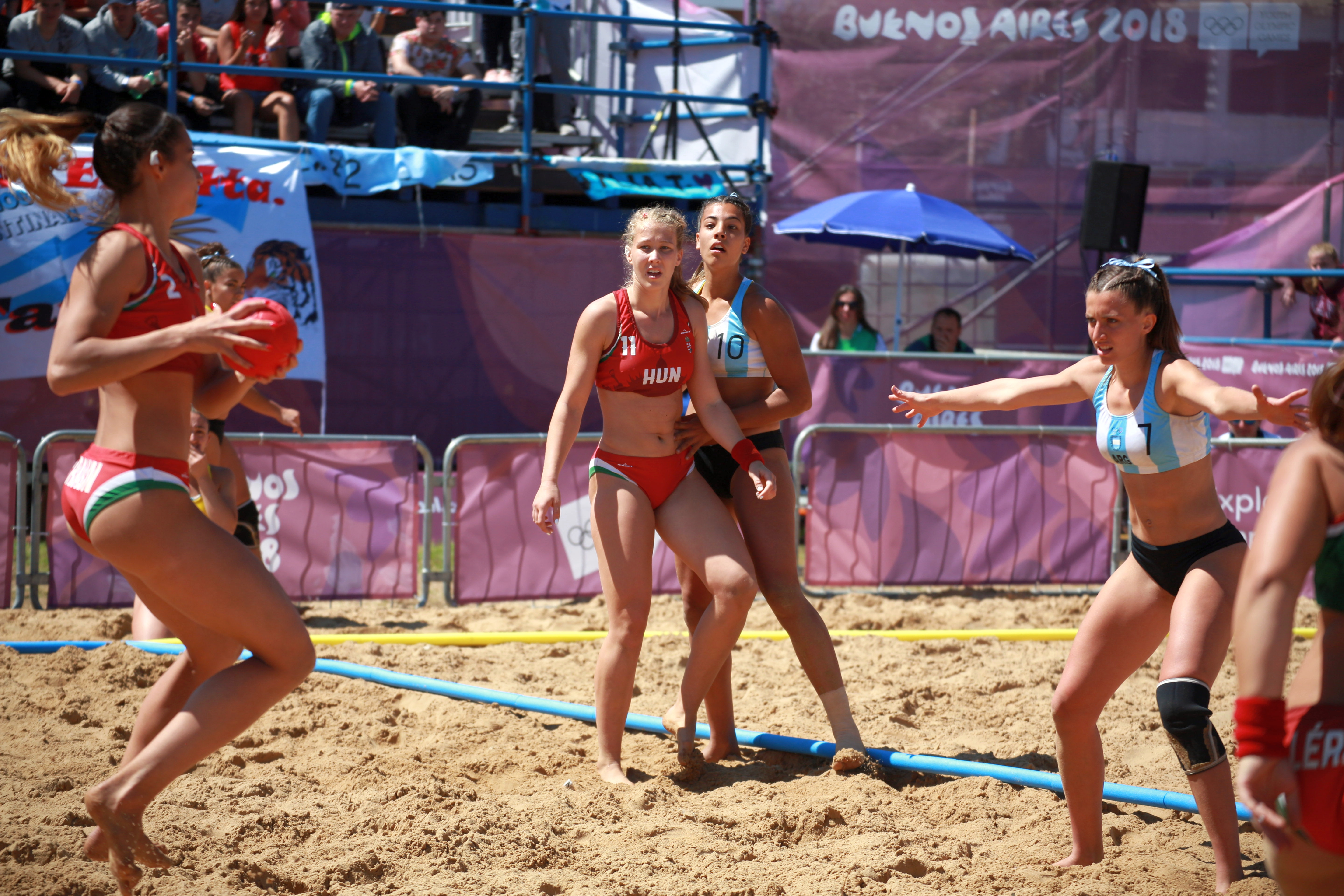 Beach handball at the 2018 Summer Youth Olympics in Buenos Aires at 13 October 2018 – Girls Semifinal – Hungary-Argentina 1:2